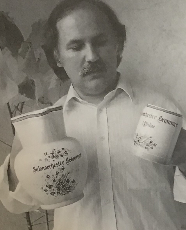 Salonorchester Brammer Krüge